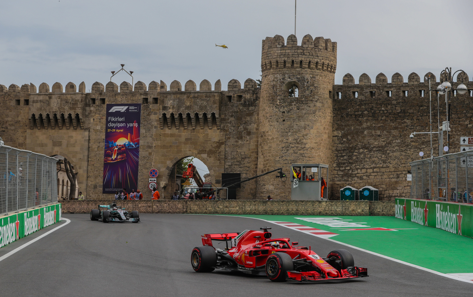 Ilham Aliyev watched the opening ceremony of the 2018 Formula-1 Azerbaijan Grand Prix and final race